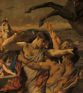 Detail from Anselm Feuerbach's Amazon battle.